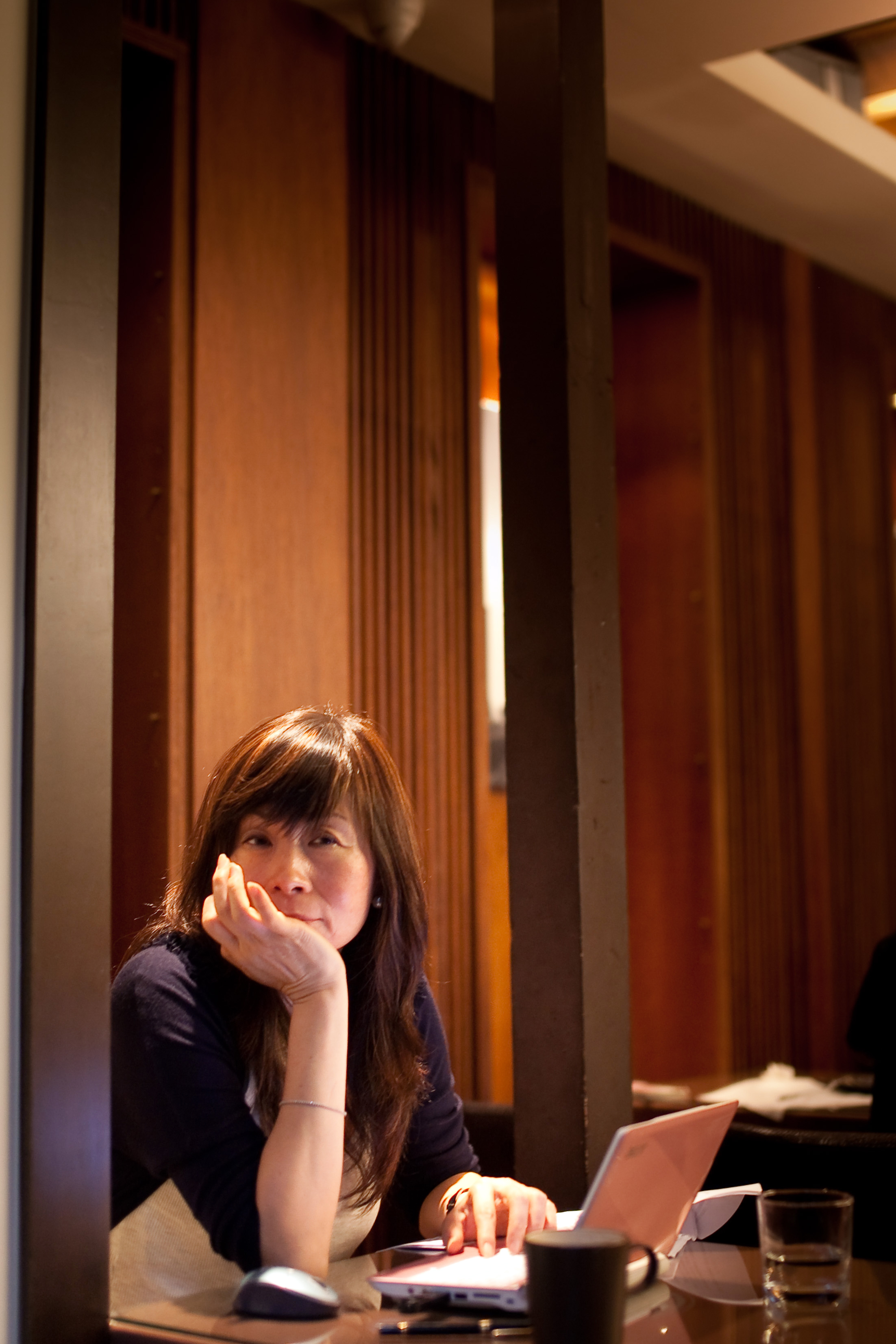 PingLu (Taiwanese writer)中文（台灣）: 台灣作家平路，曾任香港光華文化中心主任。